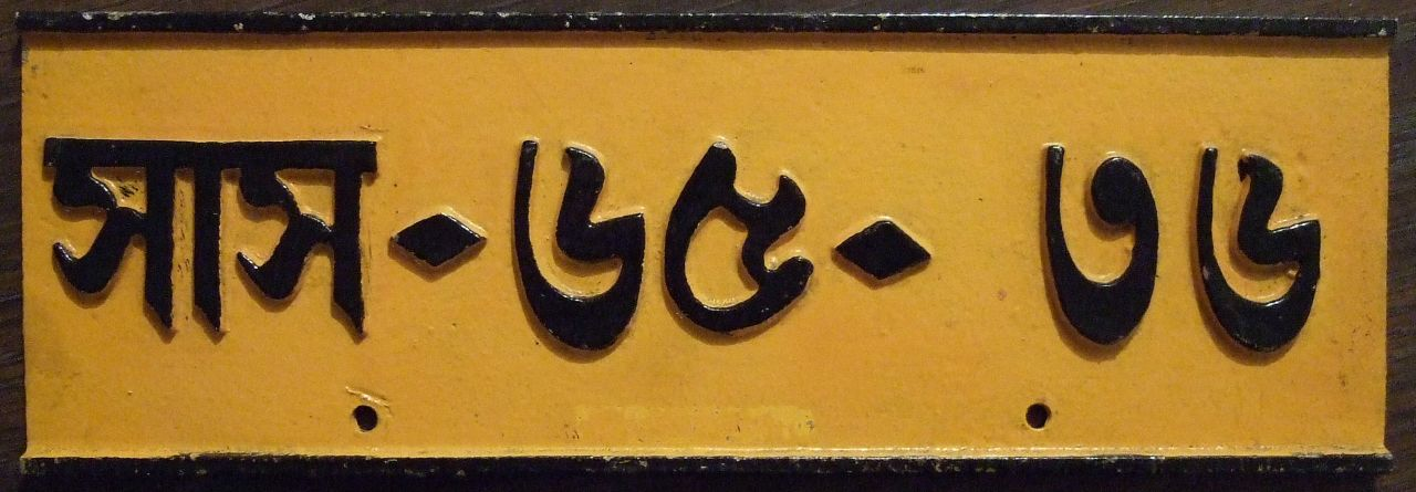 Plate is very thick and of heavy aluminum manufacture.